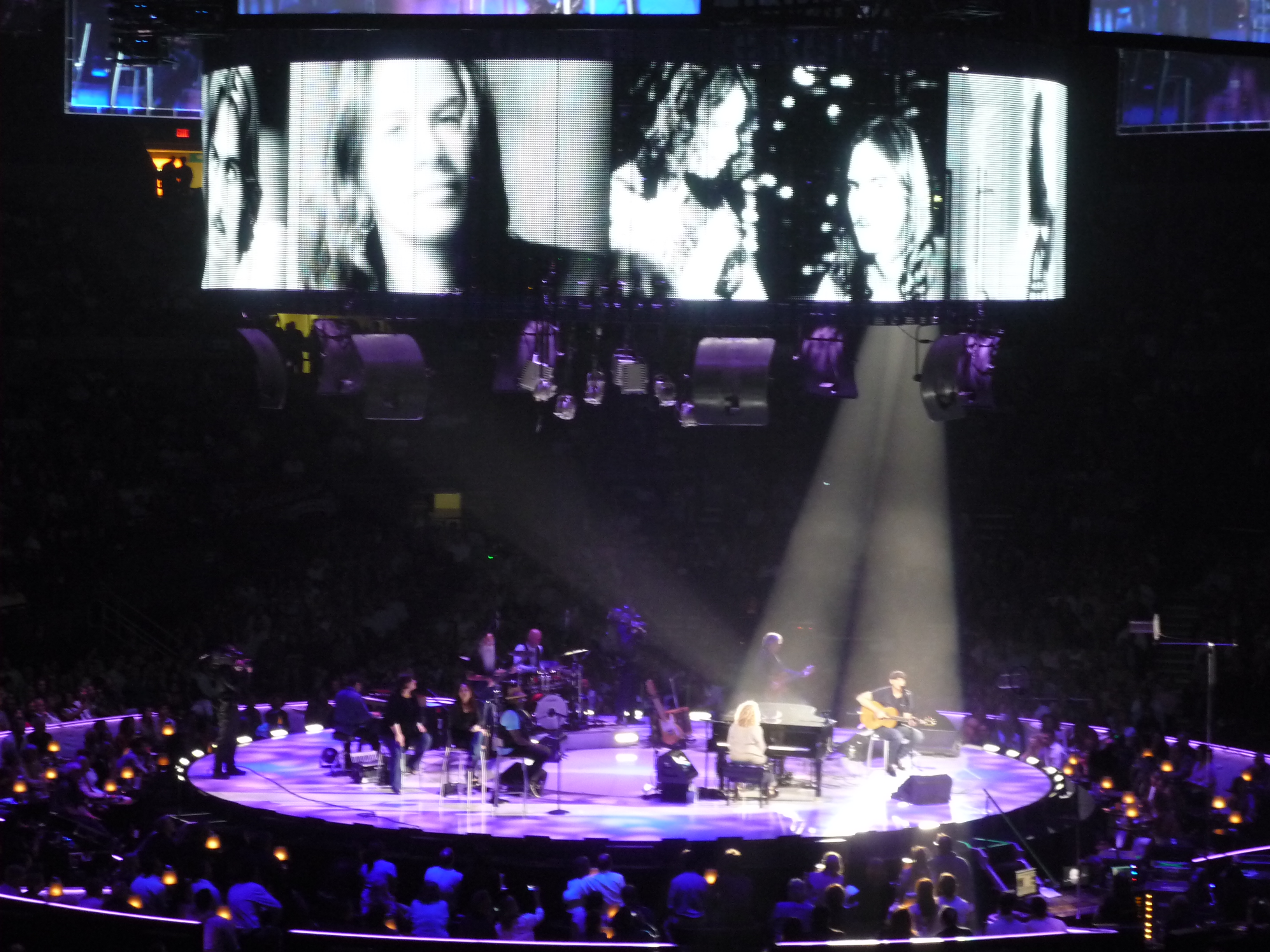 "You've Got a Friend" being performed by James Taylor (right spotlight) and Carole King (left spotlight) as the last song in the main set during their Troubadour Reunion Tour stop at Madison Square Garden in New York.